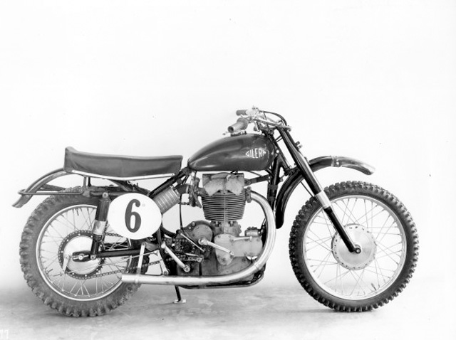 Saturno Cross n 6